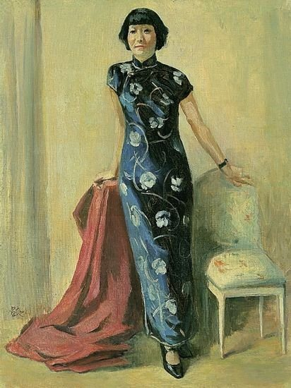 Jiang-Biwei-Chang-Tao-fanJiang Biwei or Tangzhen Jiang (1899 – 1978) was influential in the lives of the painter Xu Beihong and the politician Chang Tao-fan. Image created before before 1953 as artist died (50 years for China)